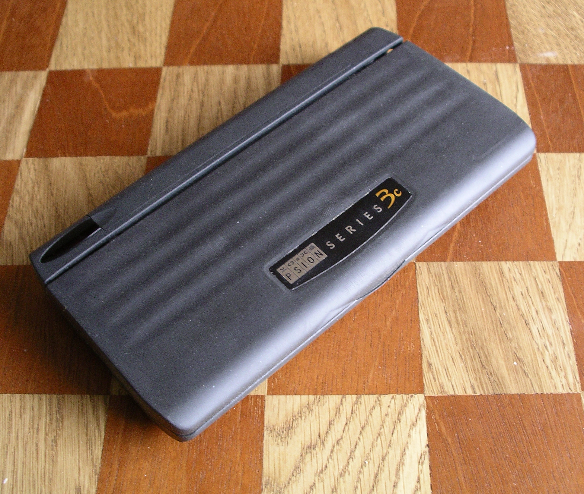 Photo taken by me of a Psion 3c on 17 October 2006 with the lid closed. The background has 5 cm squares.